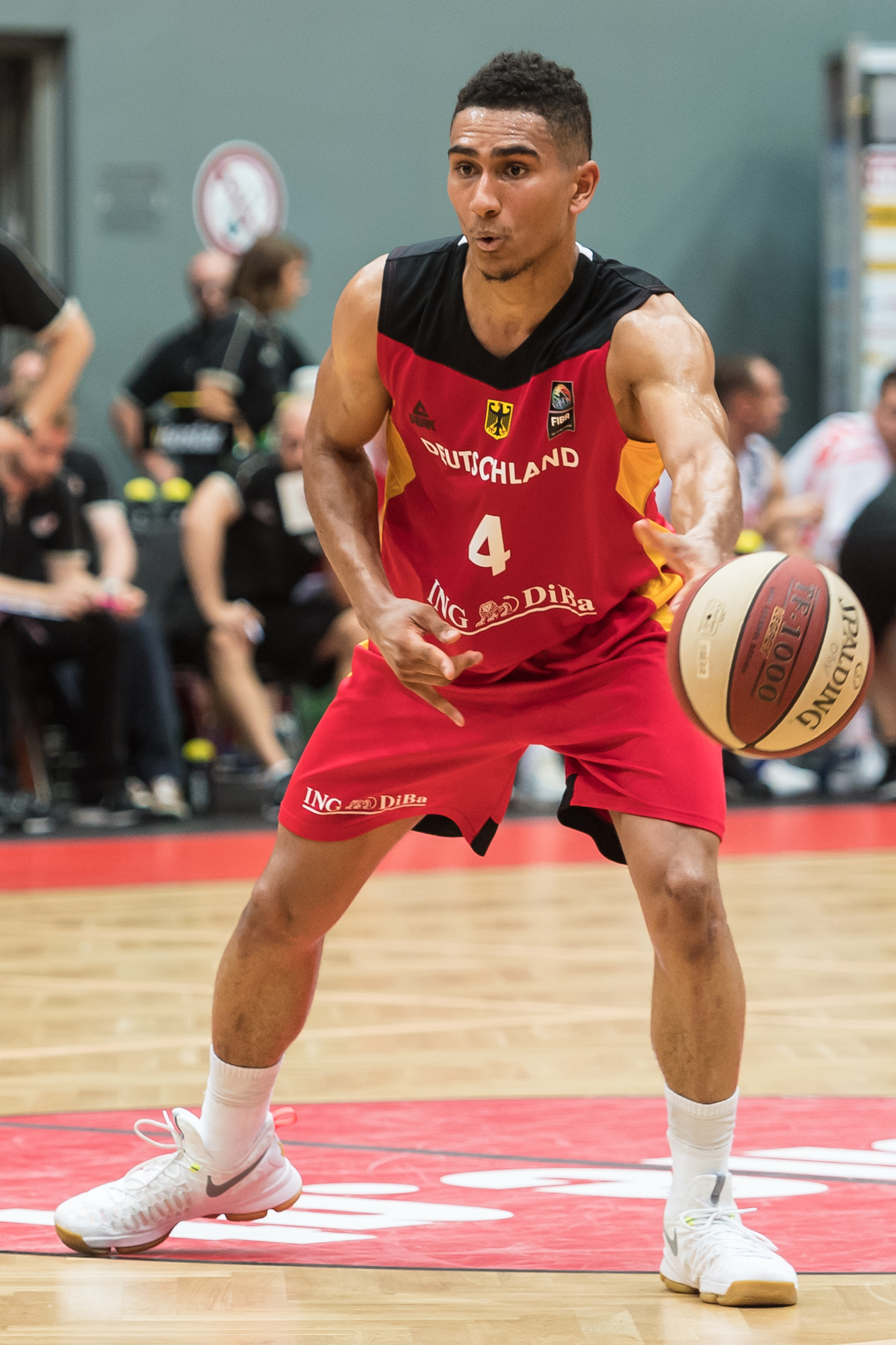 EuroBasket 2017 Qualification Austria vs Germany, Schwechat, Lower Austria, 2016-09-03.